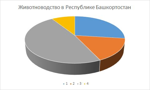 Animal RB 2013